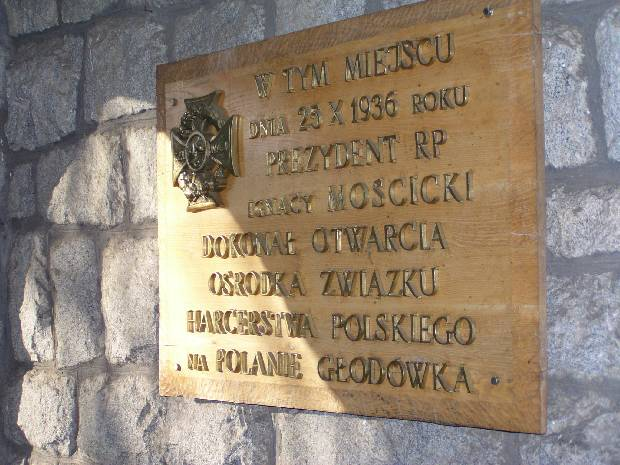 Polish Scouting and Guiding Association (ZHP) Mountain Hut "Głodówka"